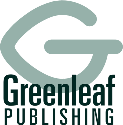 Greenleaf Publishing company logo